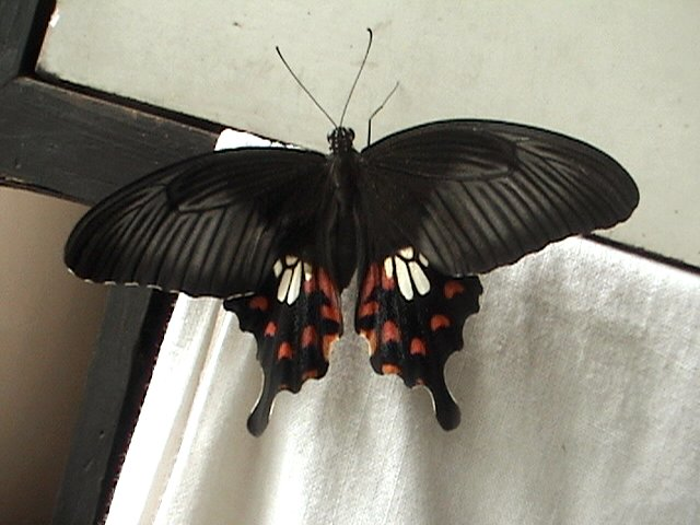 Just emerged from rearing cage. Common Mormon female, stichius form